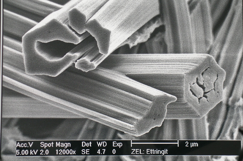 Ettringite crystal, SEM micrograph, magnification ×12000